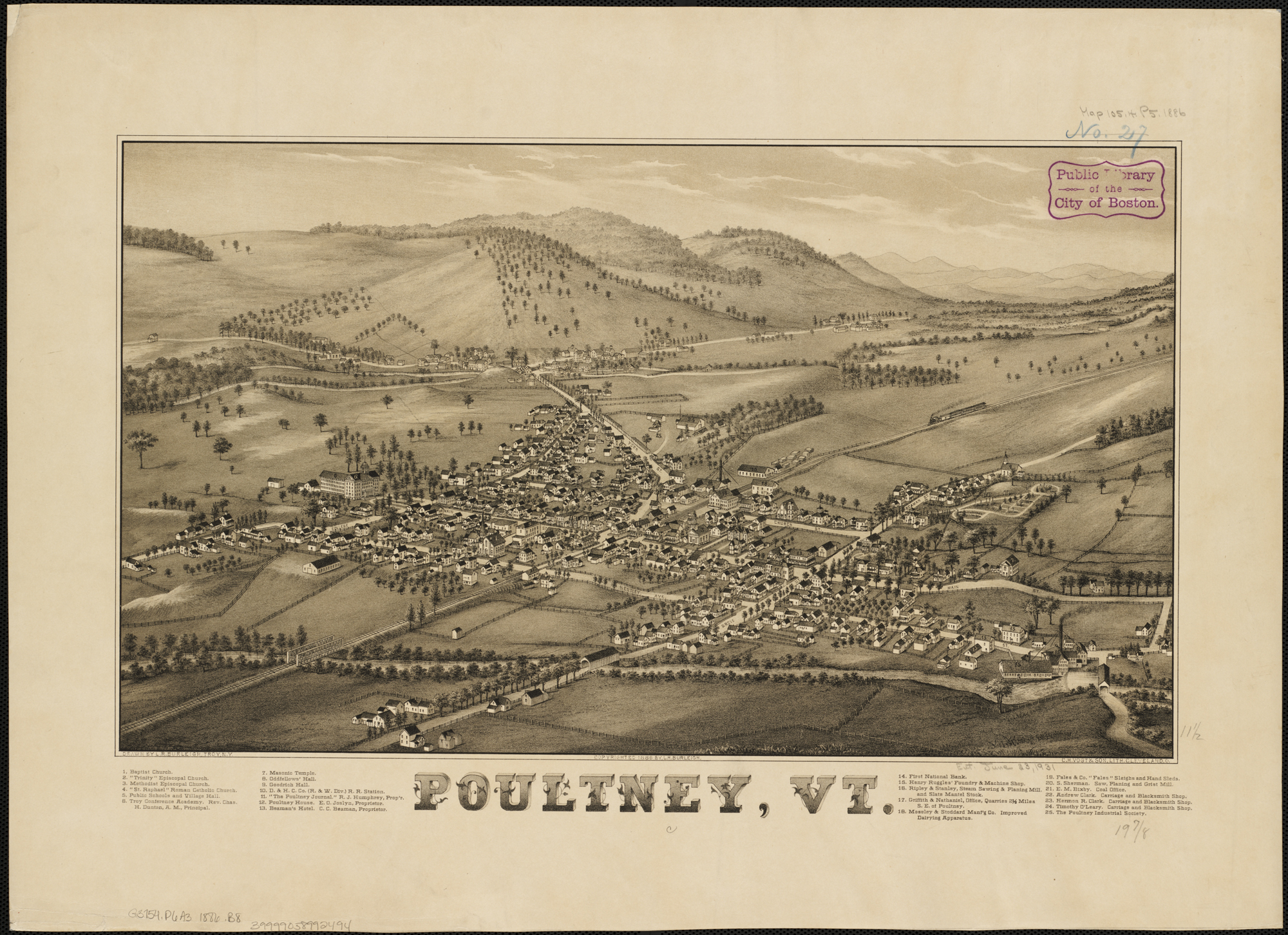 Zoom into this map at . Author: Burleigh, L. R. Publisher: L.R. Burleigh Date: c1886. Location: Poultney (Vt.) Scale: Not drawn to scale. Call Number: G3754.P6A3 1886.B8